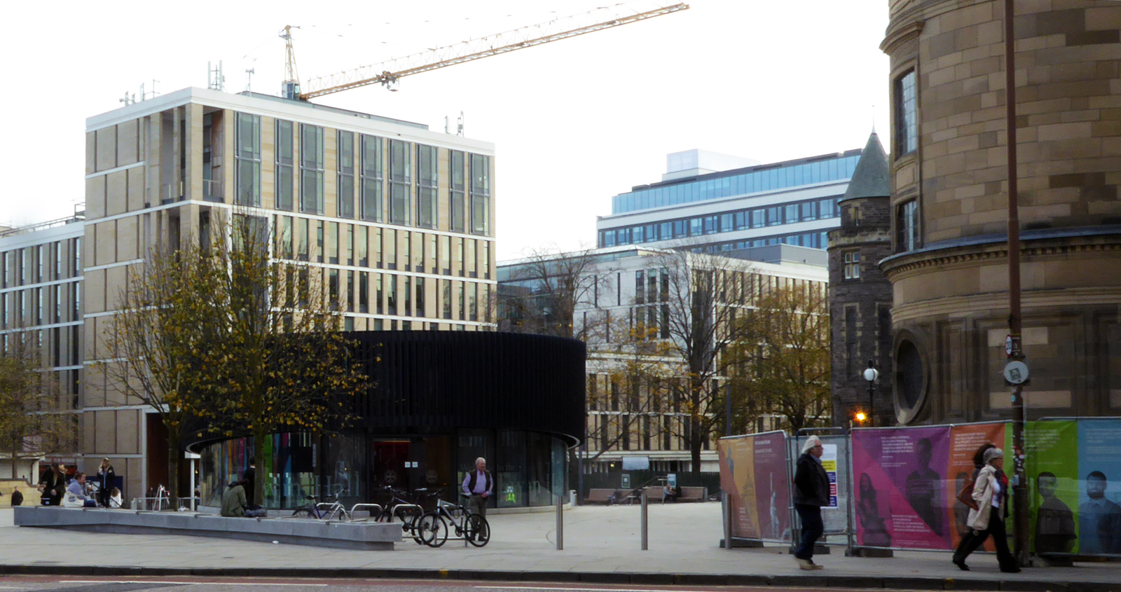 Redeveloped square with new accessible entrance pavilion